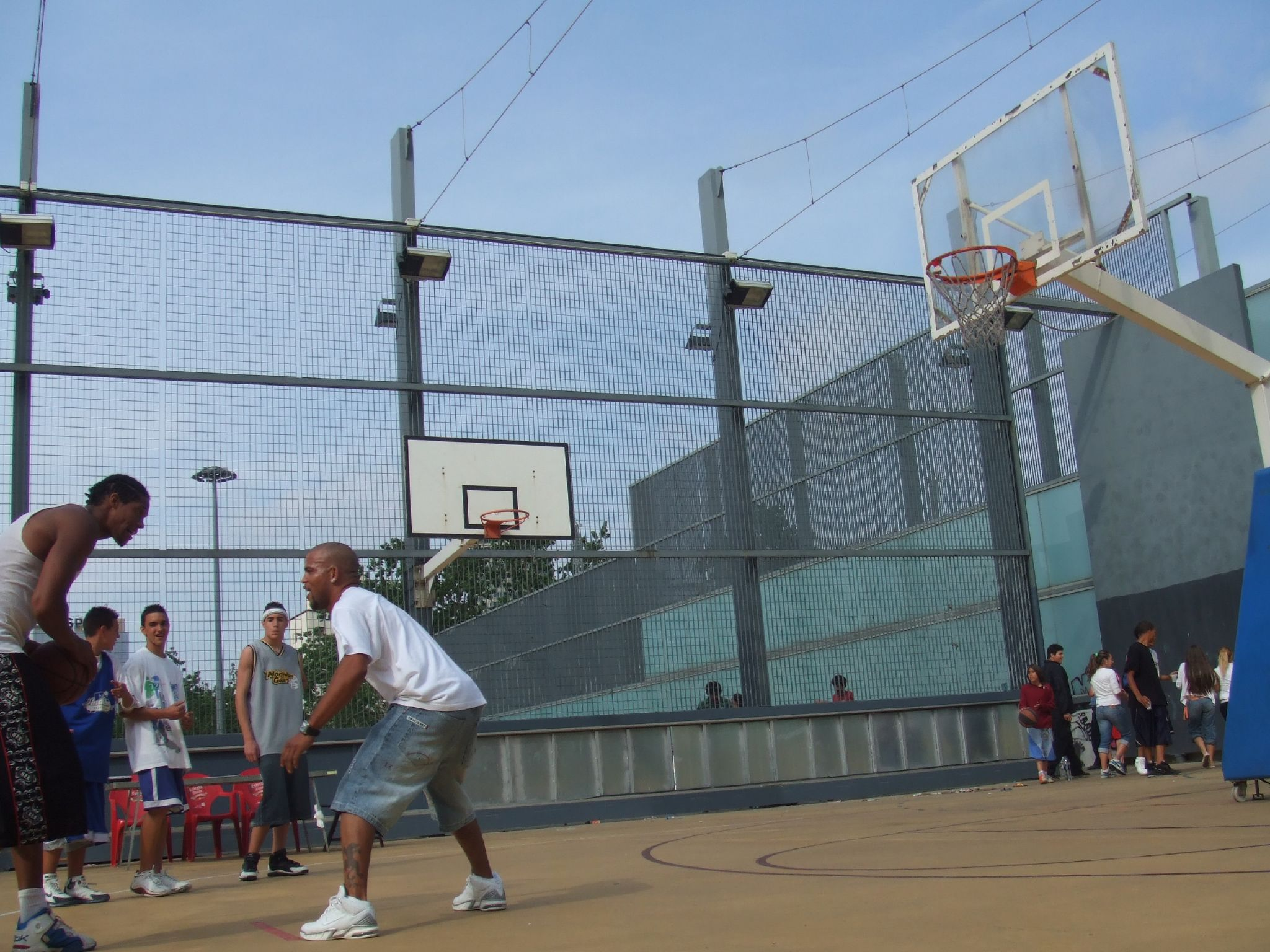 One on one game